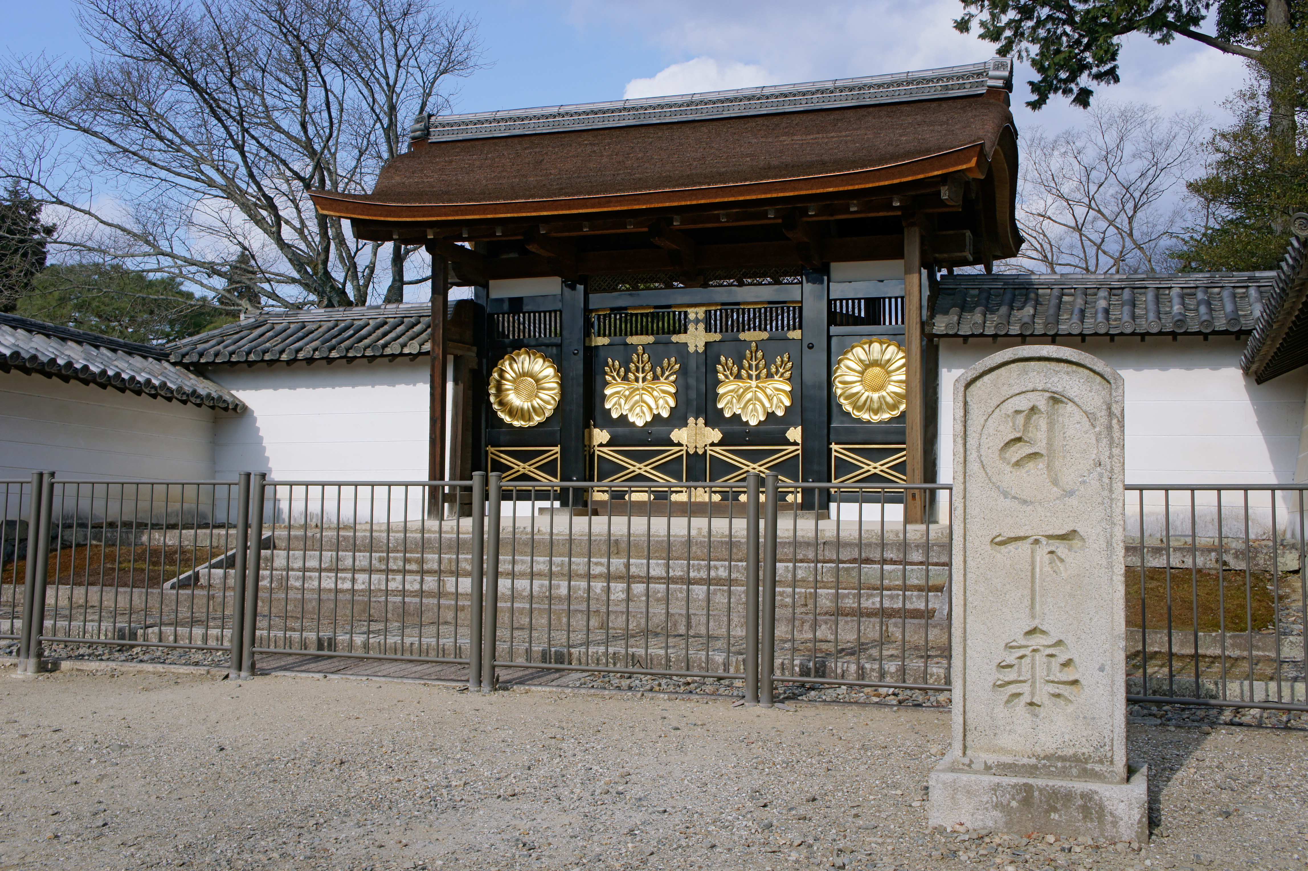 Sanbō-in's Karamon is Japan's National Treasure in Fushimi-ku, Kyoto, Kyoto Prefecture, Japan. Daigo-ji including Sanbō-in was registered as part of the UNESCO World Heritage Site "Historic monuments of ancient Kyoto".